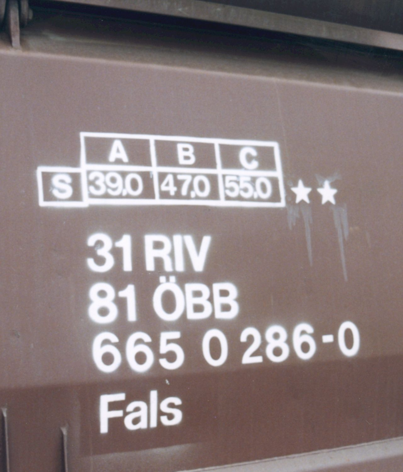 UIC wagon number on a freight car